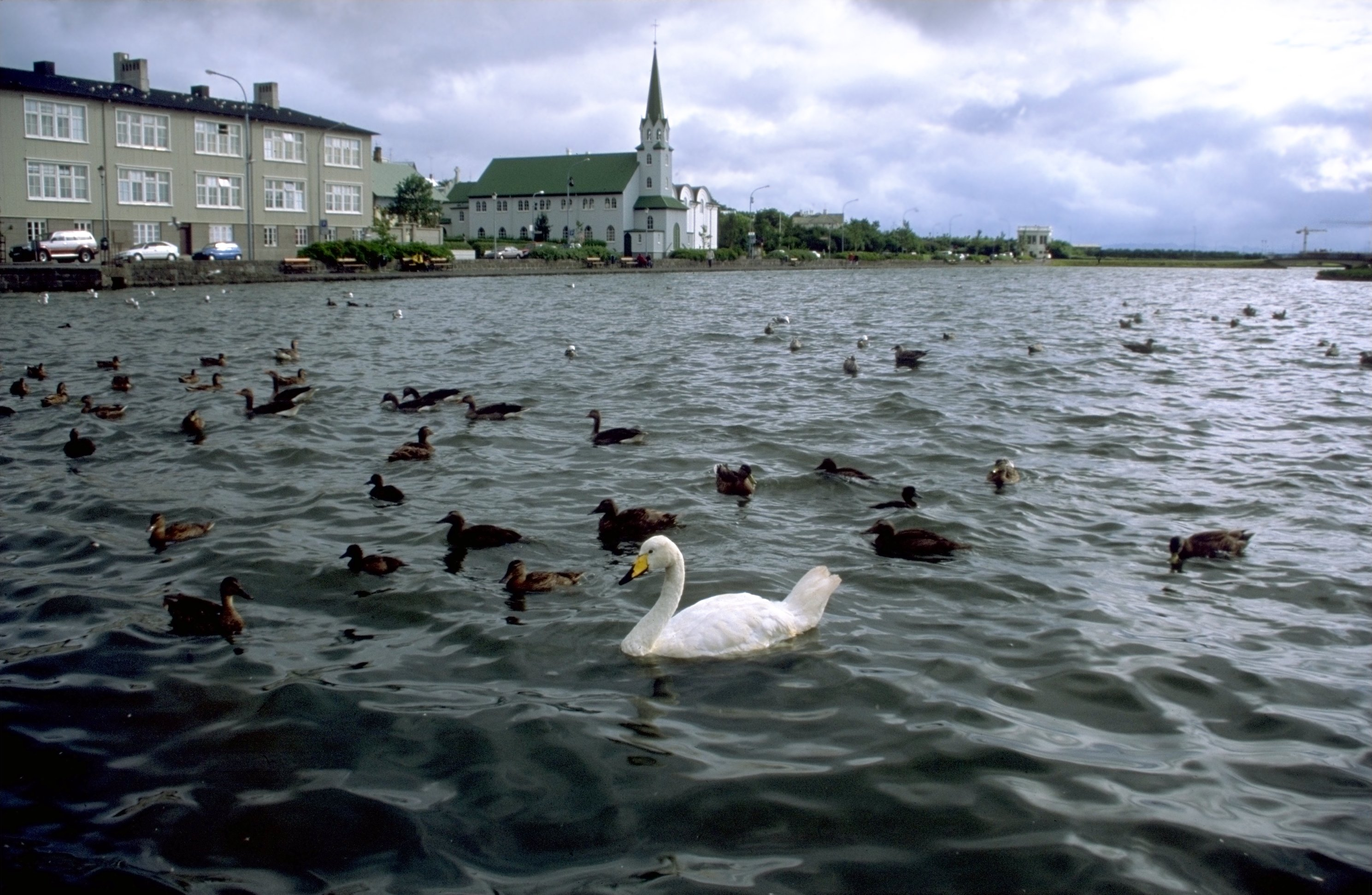 Tjörnin, Reykjavík, Iceland Photo was taken using the following technique: Film: Kodak Elite 100 Lens: 28-80 Filter: Body: Minolta 600si Support: Image with Information in English Bild mit Informationen auf Deutsch